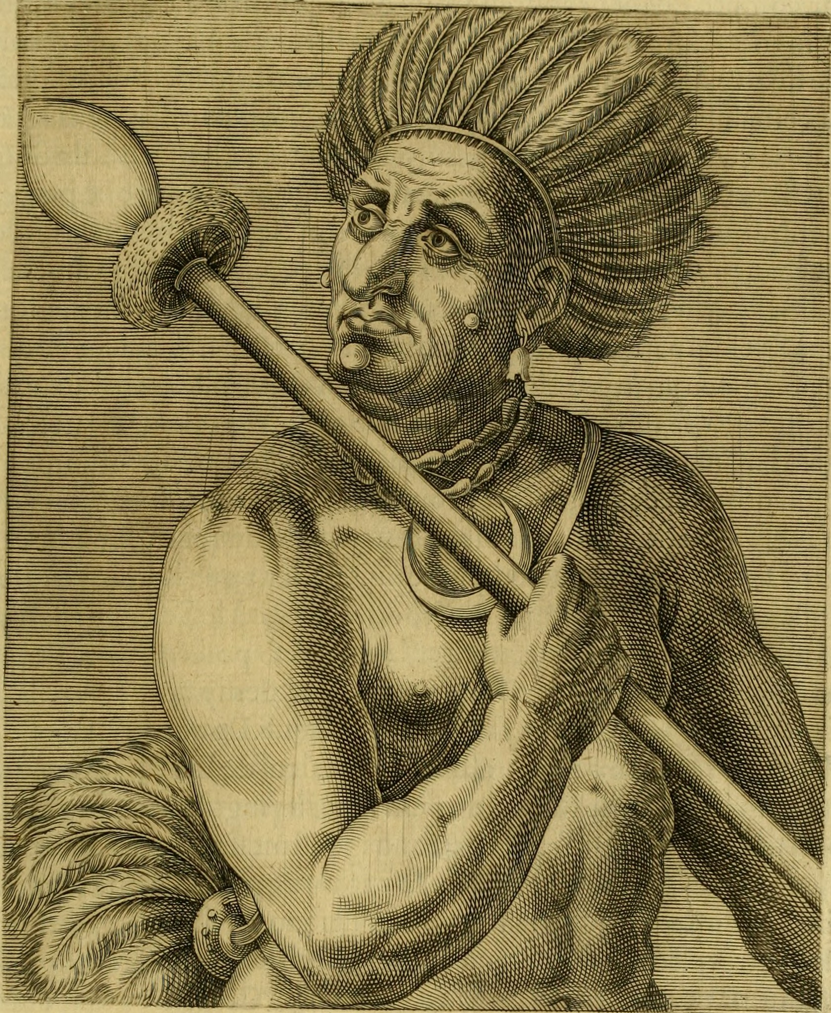 Cunhambebe, from tome 3, folio 661 recto of Les vrais pourtraits et vies des hommes illustres grecz, latins et payens (1584) by André Thevet.